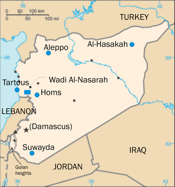 Map of places mentioned in the Christianity in Syria article.